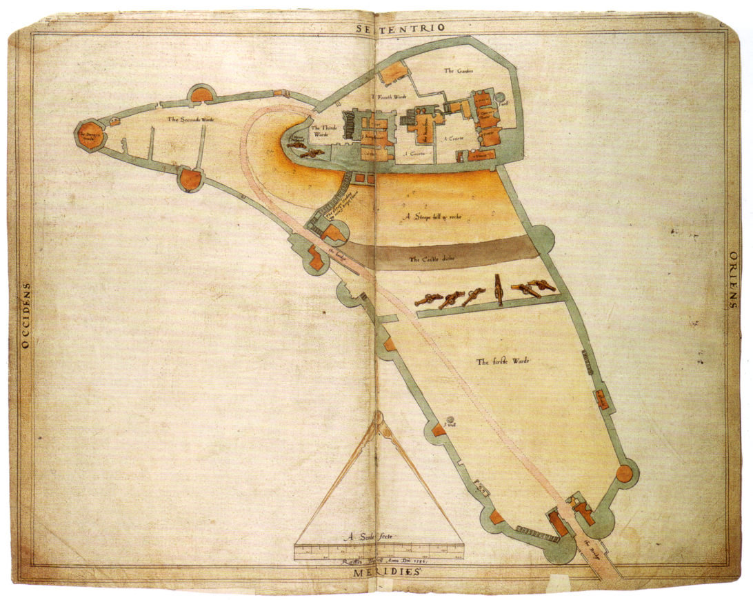 A plan of Corfe Castle produced in 1586 as part of an inventory of the building when it was transferred from royal control to Sir Christopher Hatton after he bought it in 1572.